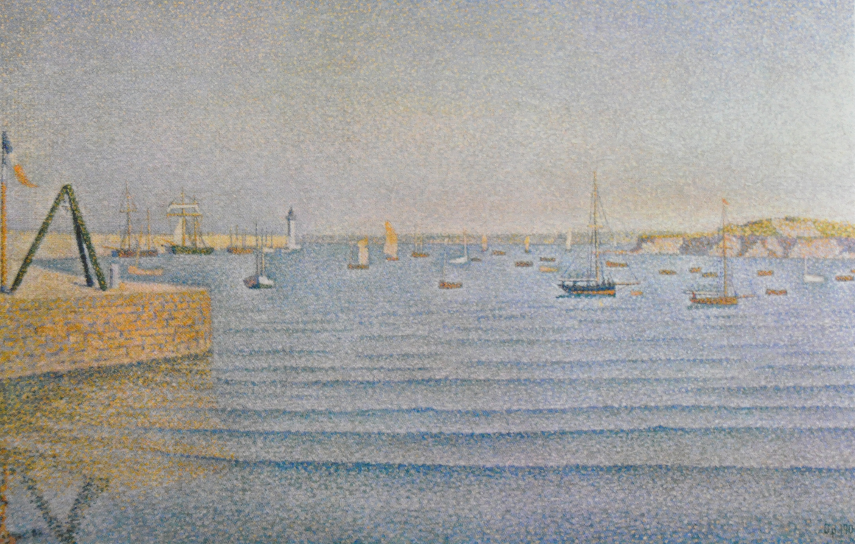 Painting of Portrieux (France, Brittany) by Paul Signac in 1888.